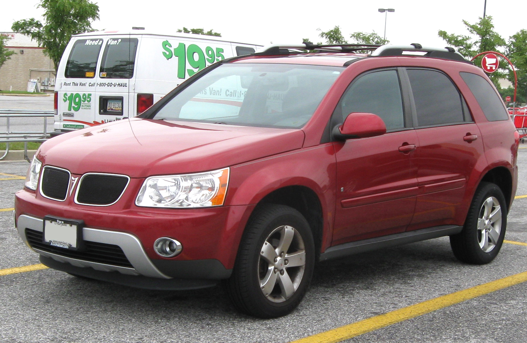 Pontiac Torrent photographed in Laurel, Maryland, USA.